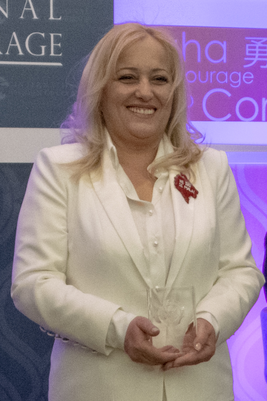 U.S. Secretary of State Michael R. Pompeo and First Lady of the United States Melania Trump present Olivera Lakic from Montenegro with the 2019 International Women of Courage (IWOC) Award during the ceremony at the U.S. Department of State in Washington, D.C., on March 7, 2019. [State Department photo by Ron Pryzsucha/ Public Domain]